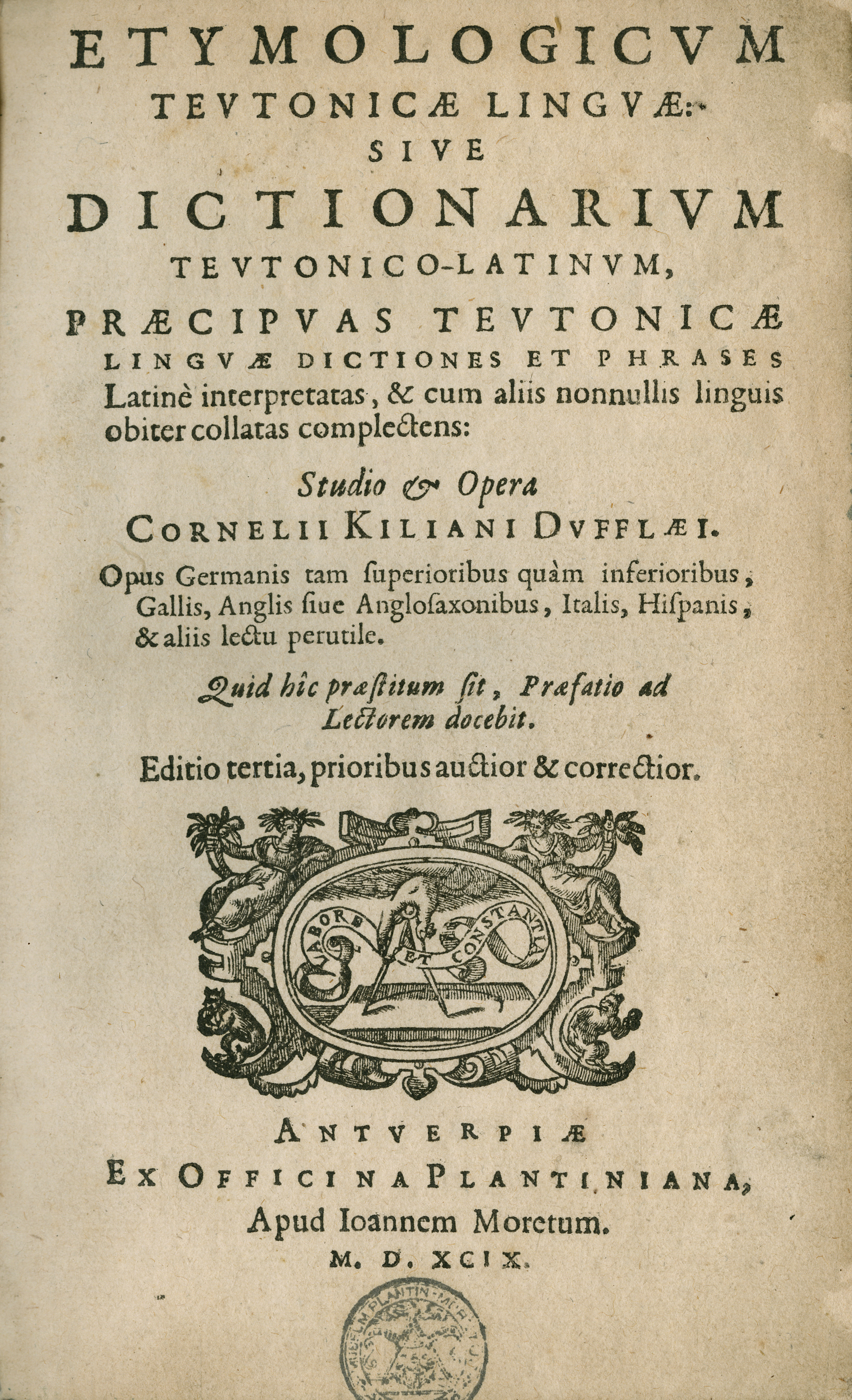 Etymologicum Teutonicae Linguae sive Dictionarium Teutonico-Latinum, praecipuas Teutonicae Linguae dictiones et phrases Latinè interpretatas, et cum aliis nonnullis linguis obiter complectens: Studio & Opera Cornelii Kiliani Dufflaei. Opus Germanis tam superioribus quàm inferioribus, Gallis, Anglis sive Anglosaxonibus, Italis, Hispanis, & aliis lectu perutile. Quid hic praestitum sit, Praefatio ad Lectorem docebit. Editio tertia, prioribus auctior et correctior. [Emblem (hand holding compasses) with text on banner: "Labore et constantia"] Antwerpiae, Ex Officina Plantiniana, Apud Ioannem Moretum. M.D. XCIX. 1599